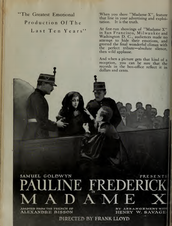 Ad with Pauline Frederick in the film Madame X (1920) directed by Frank Lloyd.